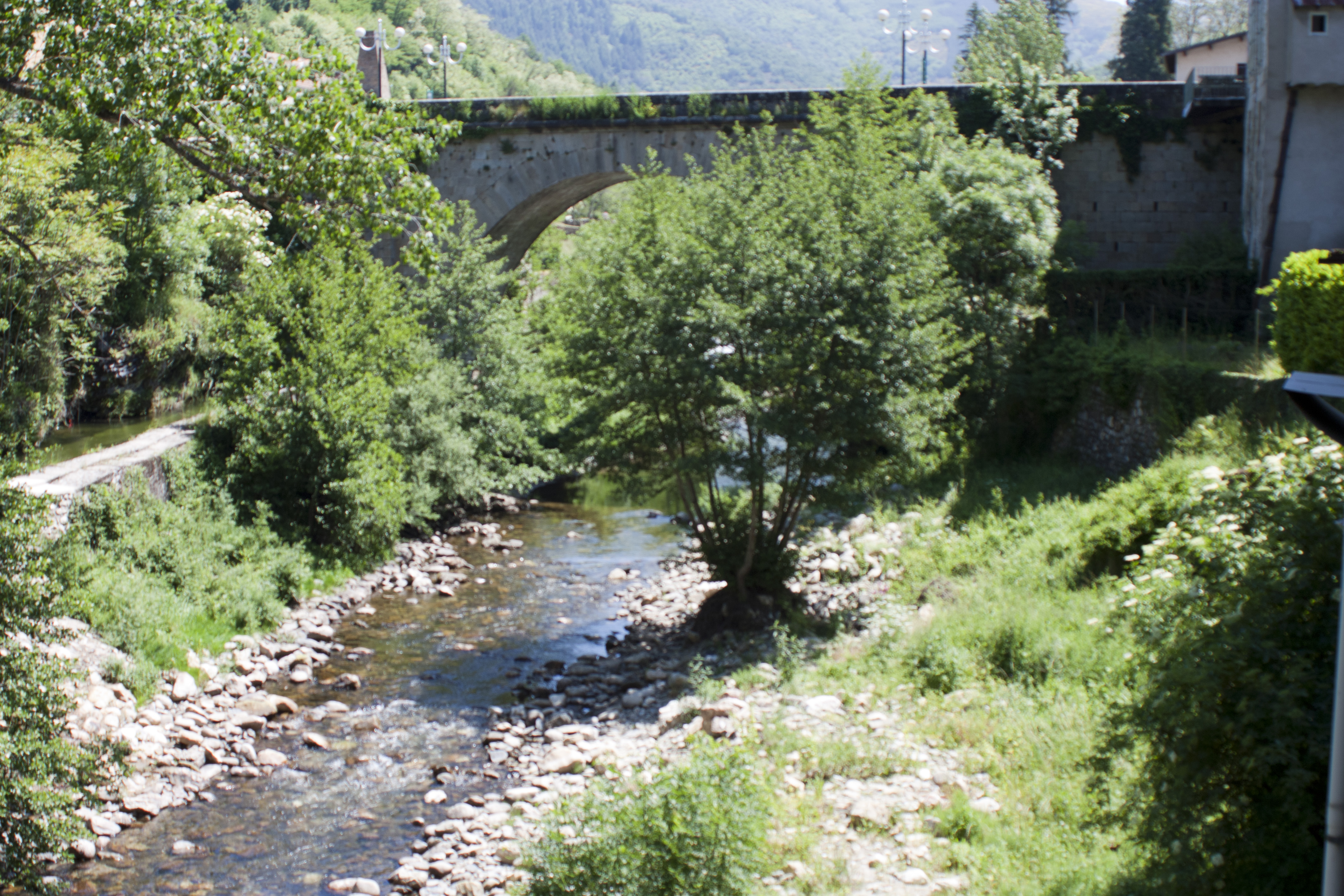 The river Dourbie inder yhe new bridge, in Saint-Jean-du-Bruel..